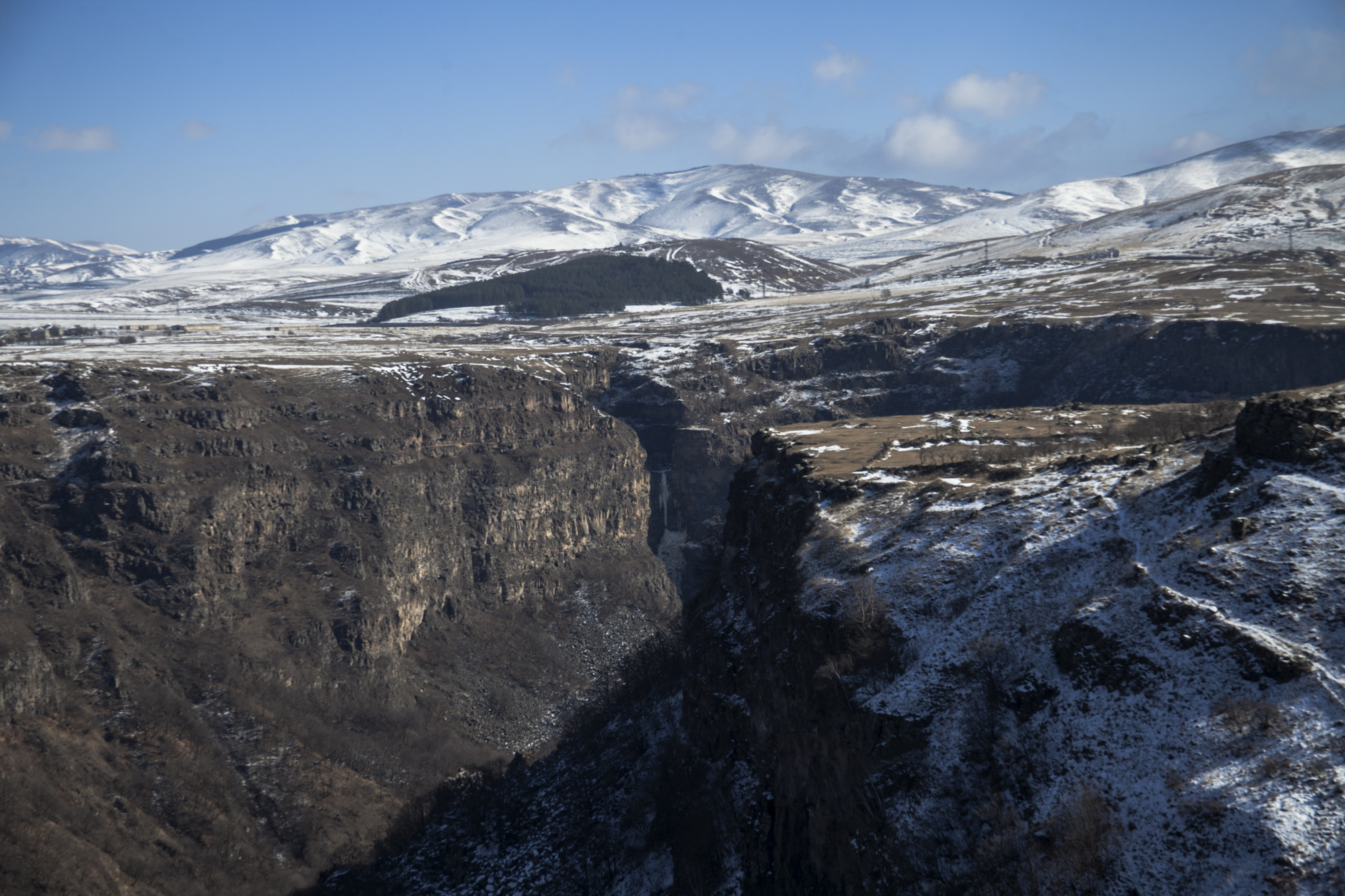 Dashbash Canyon Natural Monument Attractions: Dashbash Canyon Natural Monument is a canyon carved by Ktsia (Khrami) River in the stream bed cut through the volcanogenic rocks of Dashbash volcanic plateau, distinguished by its rarity and biodiversity. It is located at 1,110-1,448 m above sea level. The vegetation cover of the surrounding ecosystem is rather sparse, whereas the plants on the steep slopes of the canyon and astounding waterfalls create absolutely different micro-landscape, with characteristic micro-climate, specific fauna etc. How to get there: the nearest populated area is a village of Dashbash of Tsalka Municipality, which is linked to the town of Tsalka with a 3 km gravel road and 10 minutes by car. The area is 92 km and 1 hr and 40 min away from Tbilisi. The distance from Algeti National Park to Dashbash Canyon is 42 km, which is 50 minutes drive. Coordinates: X: 42 77 71 Y- 46 03 794. Starting point: C.g. 41° 36.235 a.g. 44° 06.685' z.d. 1448 m. Last point: C.g. 41° 33.458' a.g. 44° 07.262' z.d. 1110 m. Total area: 669 hectares